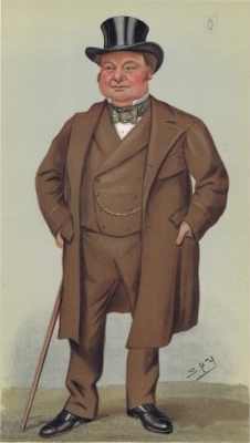 Caricature of Sir O Mosley Bt. Caption read "John Bull".